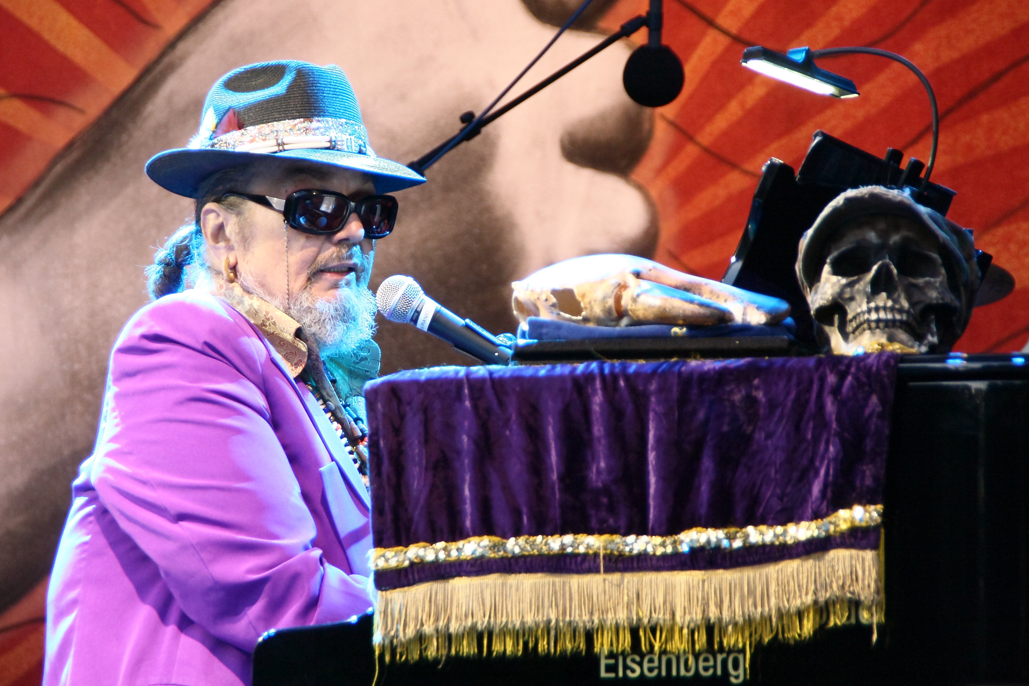 Dr. John playing at TFF Rudolstadt 2011.